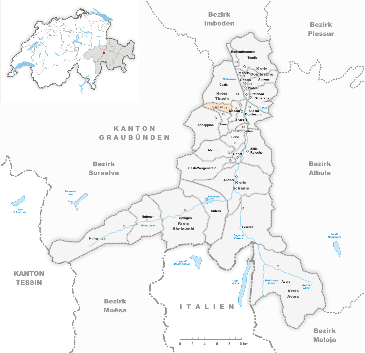 Municipality Flerden